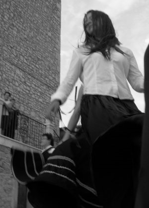 Dancing in front of San Bartolomeo Church in Greci (Av)